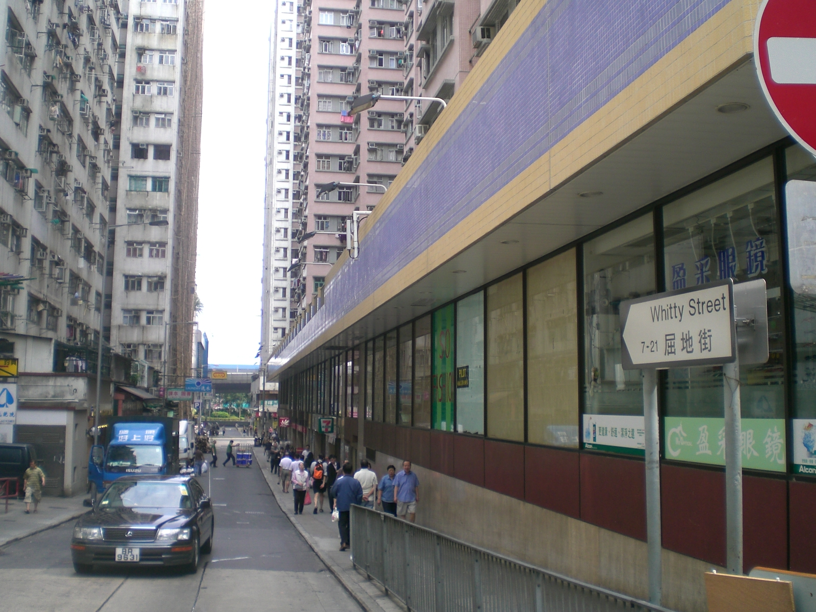 石塘咀, Shek Tong Tsui, 屈地街, Whitty Street Author:zh:User:KennethTom